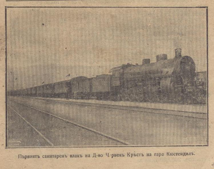 The first ambulance train of Bulgarian Red Cross, on the train station of Kyustendil. Picture from the Bulletin of the Bulgarian Red Cross, year 1, vol. 45, page 75, 1916